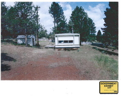 One of the two trailers on the Dog Cry Ranch, which, unknown to its owners, was to have been the site of a failed plan to train American muslims to prepare for jihad, in Bly, Oregon.